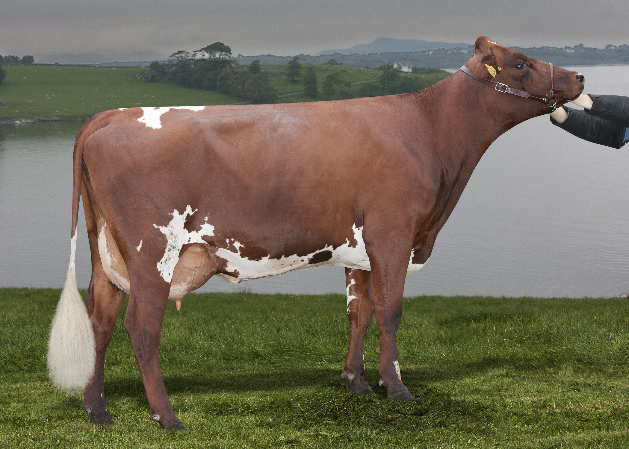 Norwegian Red daughter of the bull 10579 Eggtroen, cow nb 634 Bravo at Finnesand samdrift